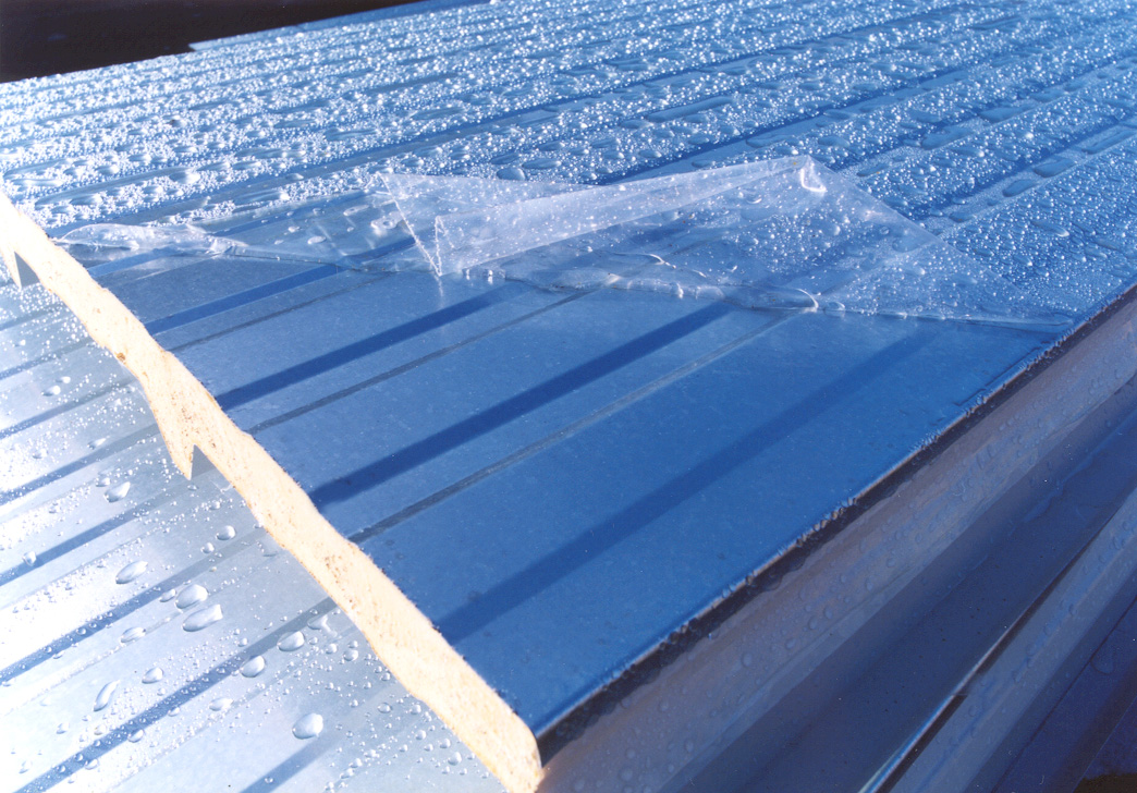 Novacel 4152: a 28µm polyolefin film, clear transparent, to protect glossy or semi gloss materials, such as prepainted metal or rigid PVC. UV treated film, 6-months outdoor ageing.